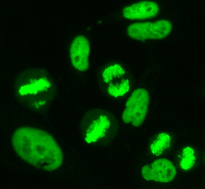 Immunofluorescence pattern of double stranded DNA antibodies. Produced using serum from a patient with lupus erythematosus on HEp-20-10 cells with a FITC conjugate.